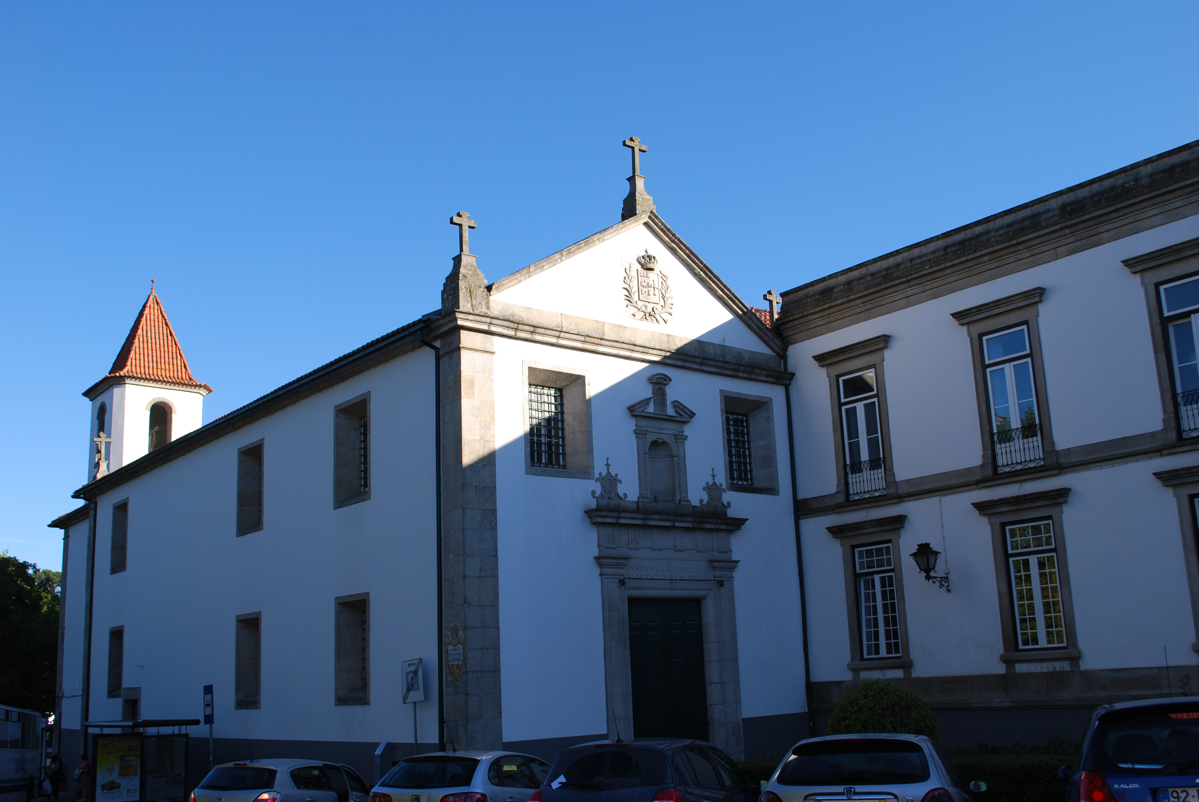 This file was uploaded for Wiki Loves Monuments in Portugal with the unique identifier 73768.